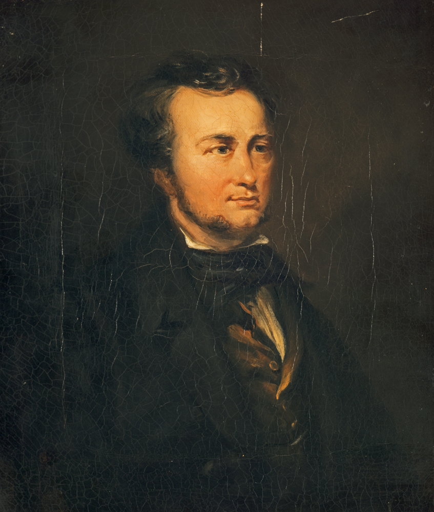 William Motherwell poet by Andrew A. Henderson